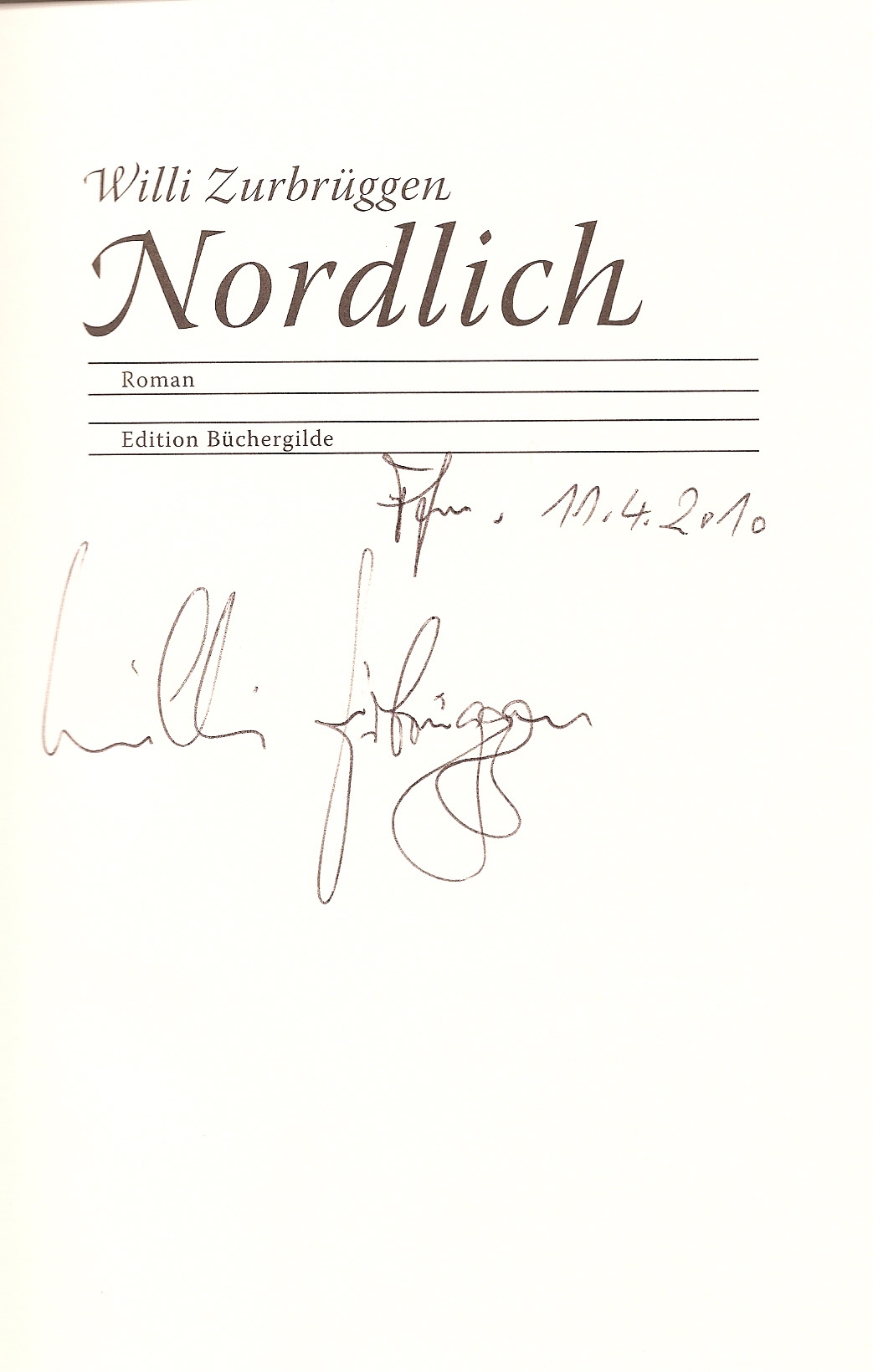 Autograph from Willi Zurbrueggen, German writer and translator, 2010 in Frankfurt am Main, Germany.